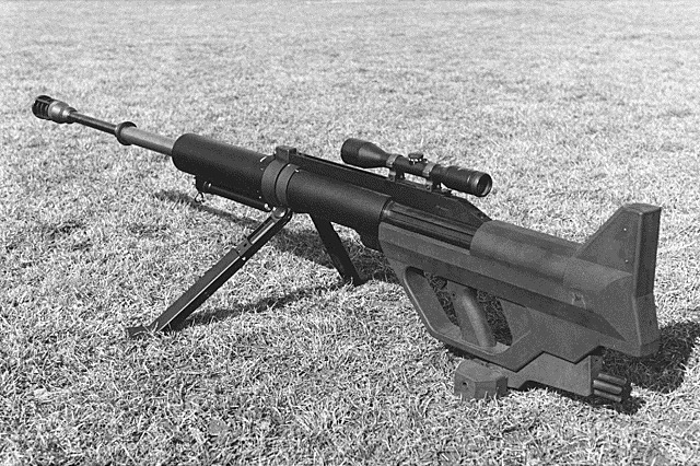 Image of a high powered anti material rifle.